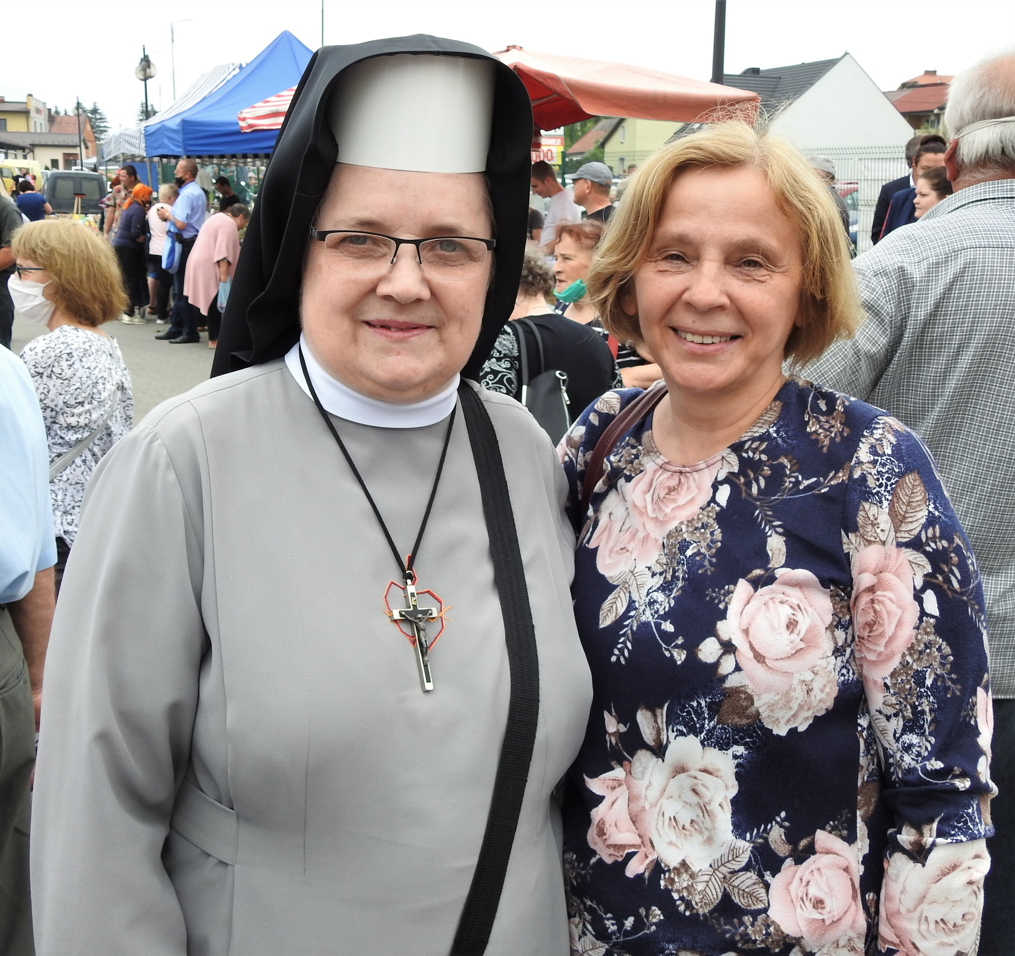 Nun from the Congregation of Handmaids of the Sacred Heart of Jesus, Pińczów, June 19, 2020.